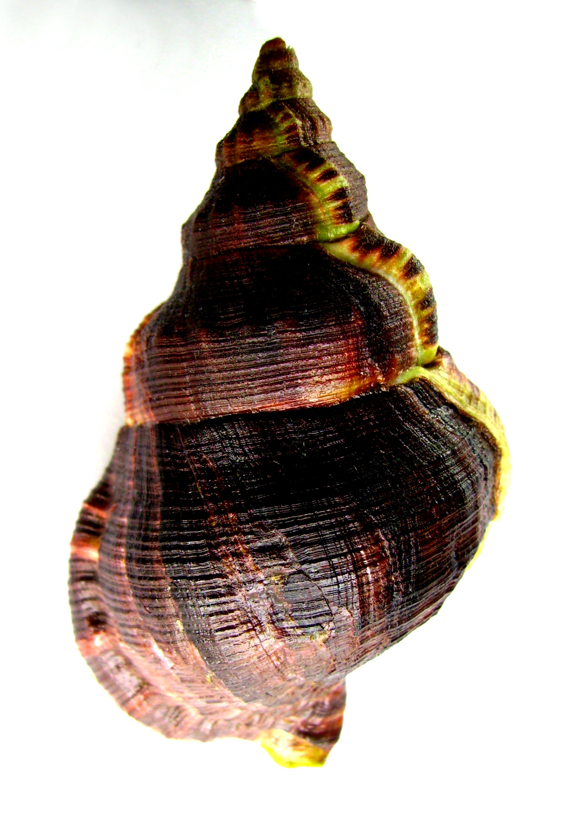 Ranella australasia, synonym: Mayena australasia australasia from Whangarei Heads, New Zealand.